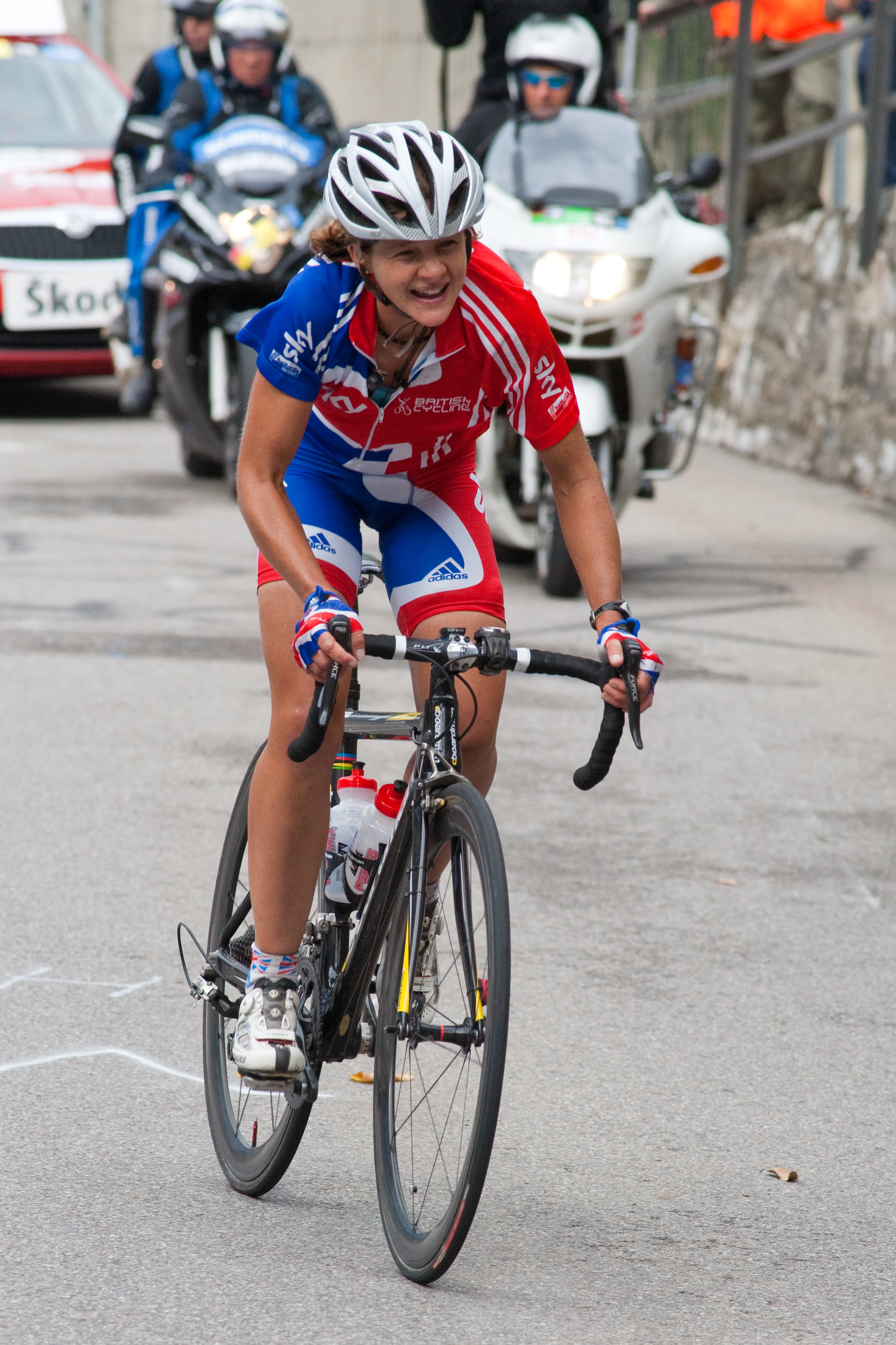 Sharon Laws during the 2009 UCI Road World Championships in Mendrisio, Switzerland.